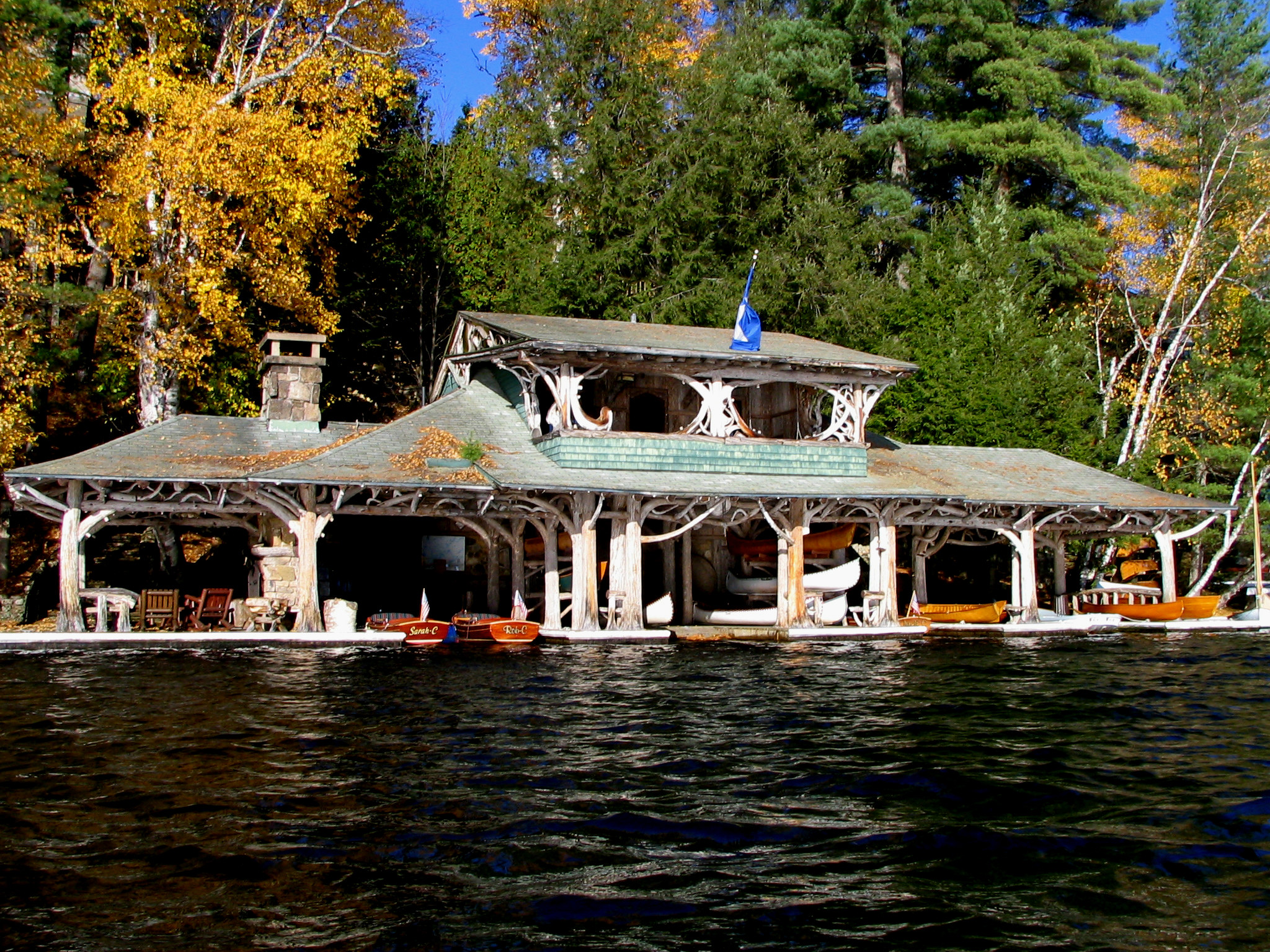 The "old" boathouse at Camp Topridge. Taken by User:Mwanner, 22 October, 2007.